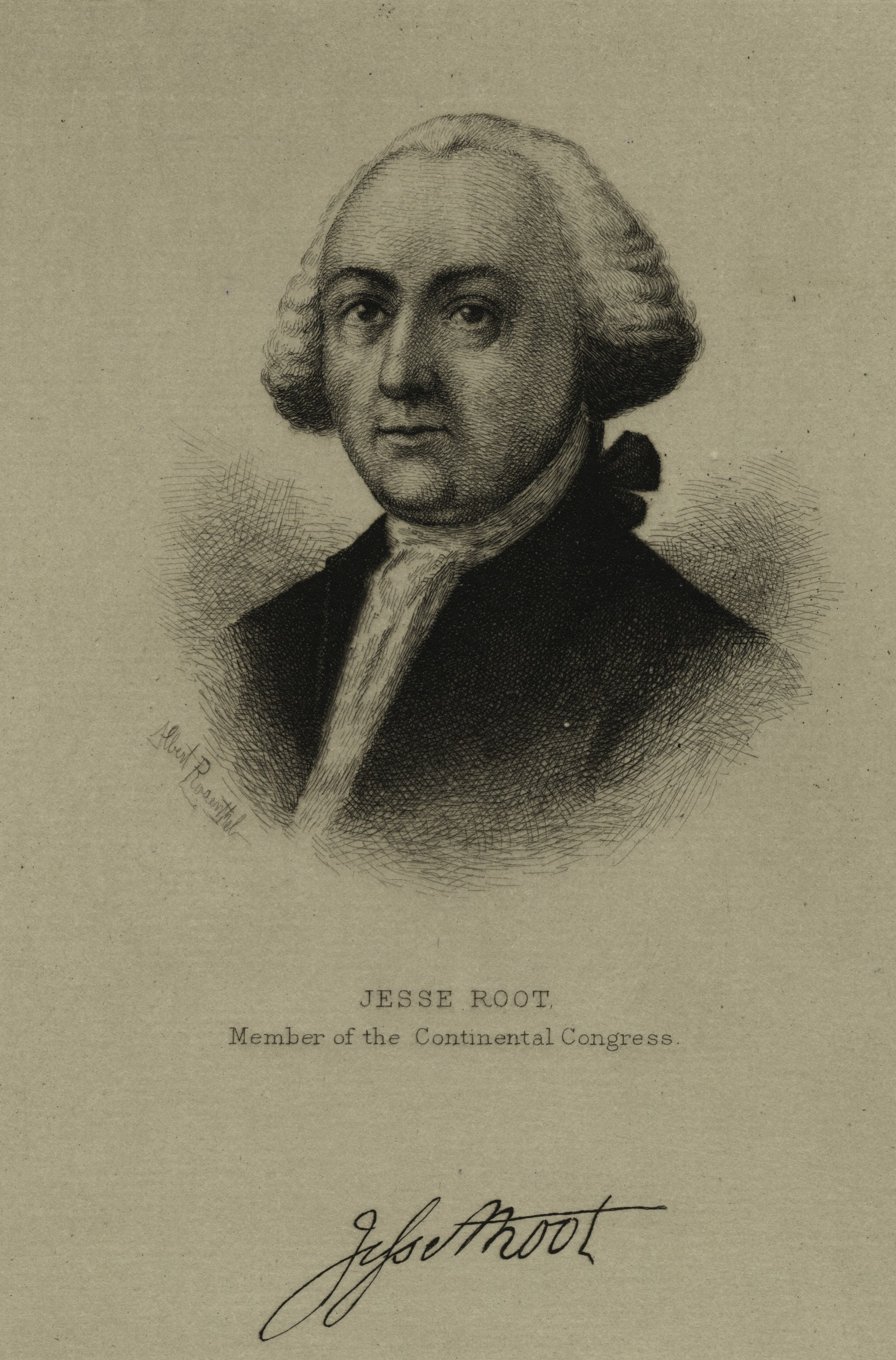 Jesse Root, Delegate to Continental Congress